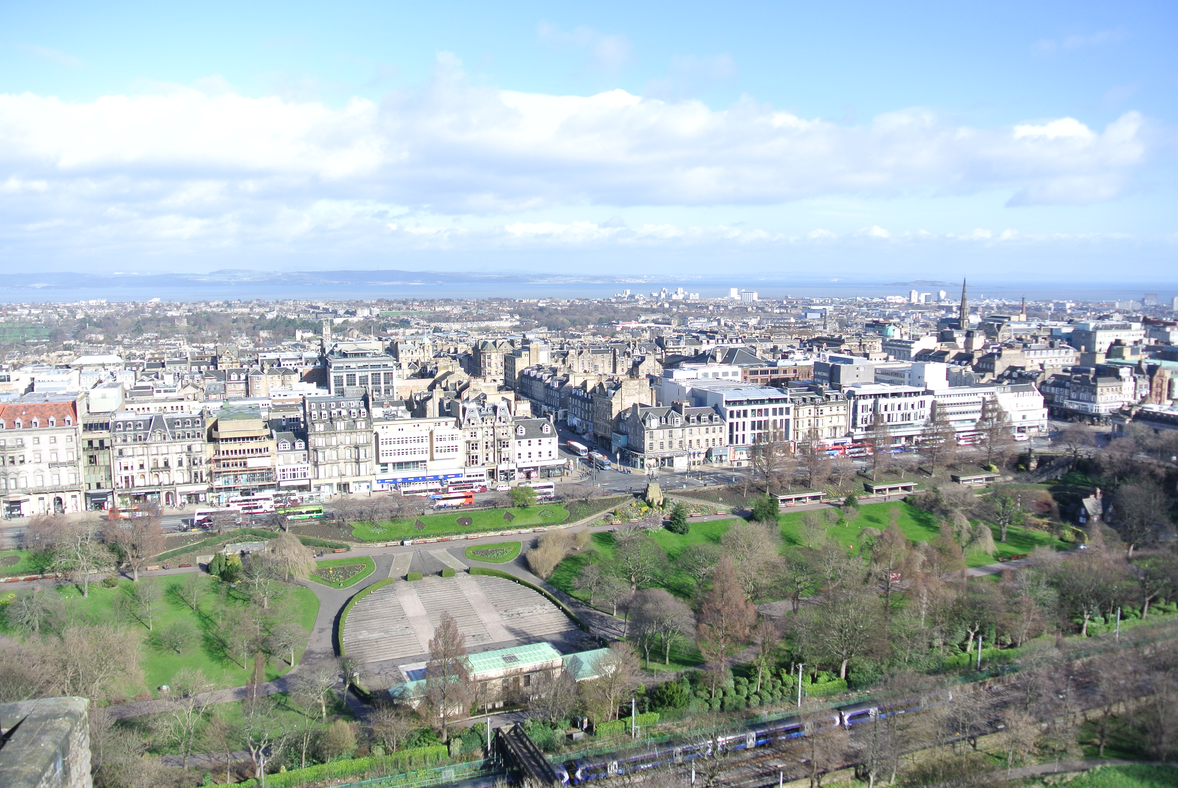 New Town of Edinburgh